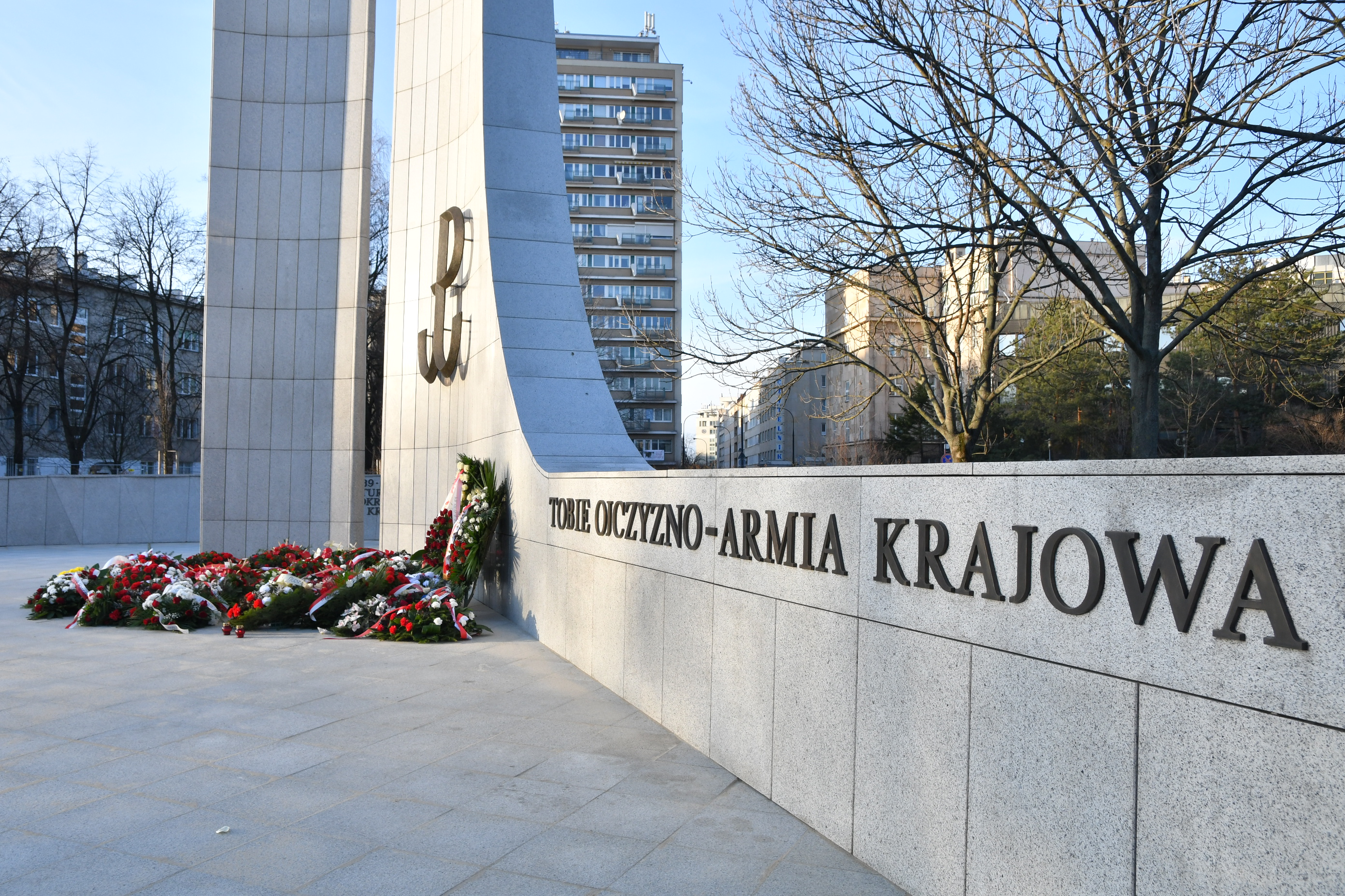 Celebration of the 77th anniversary of the Home Army. You Homeland - Home Army. Warsaw. Poland. Monument of the Polish Underground State and the Home Army.